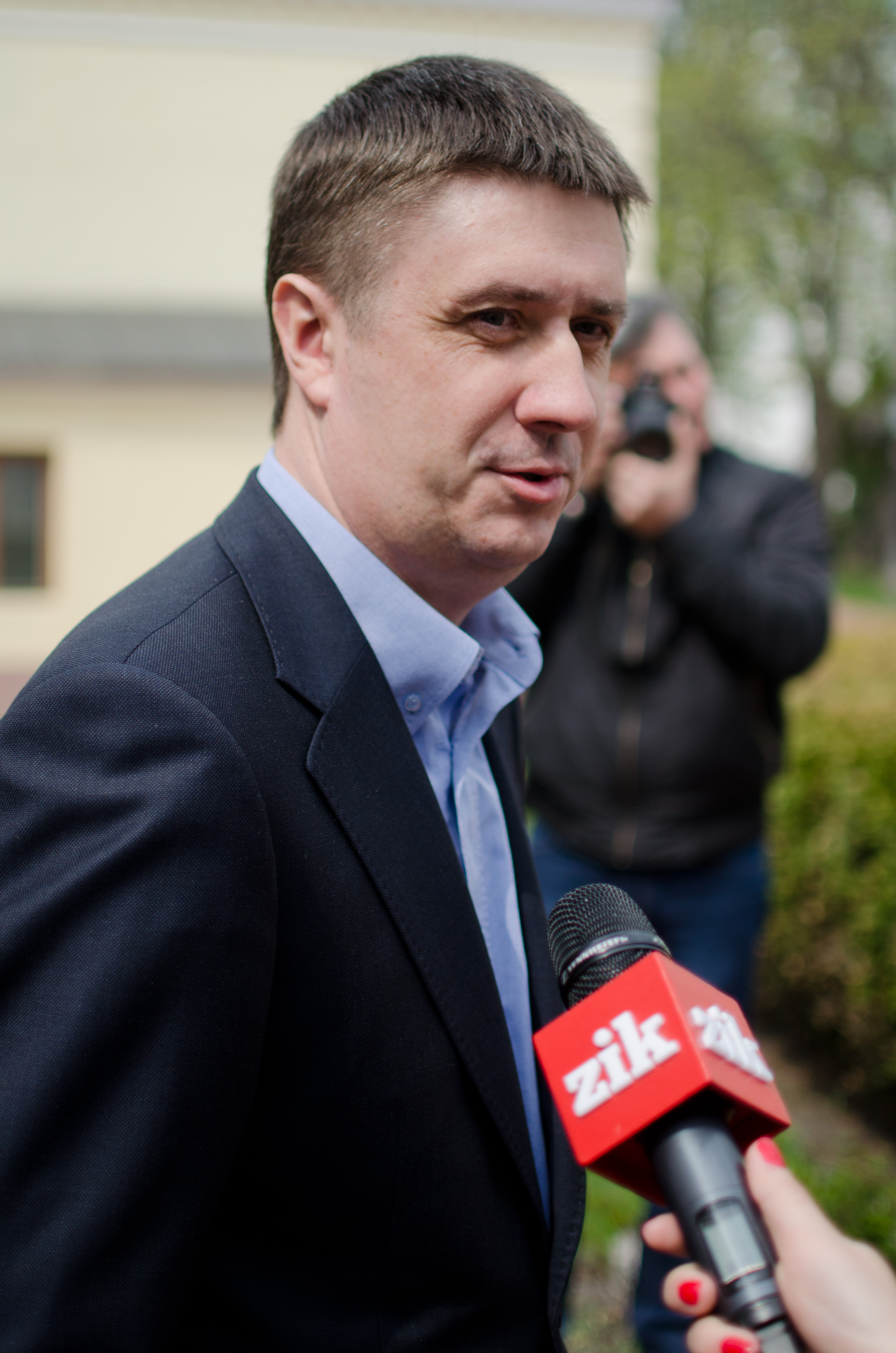 Wikipedia Loves Monuments Awards Ceremony at the National Sanctuary "Sophia of Kiev".